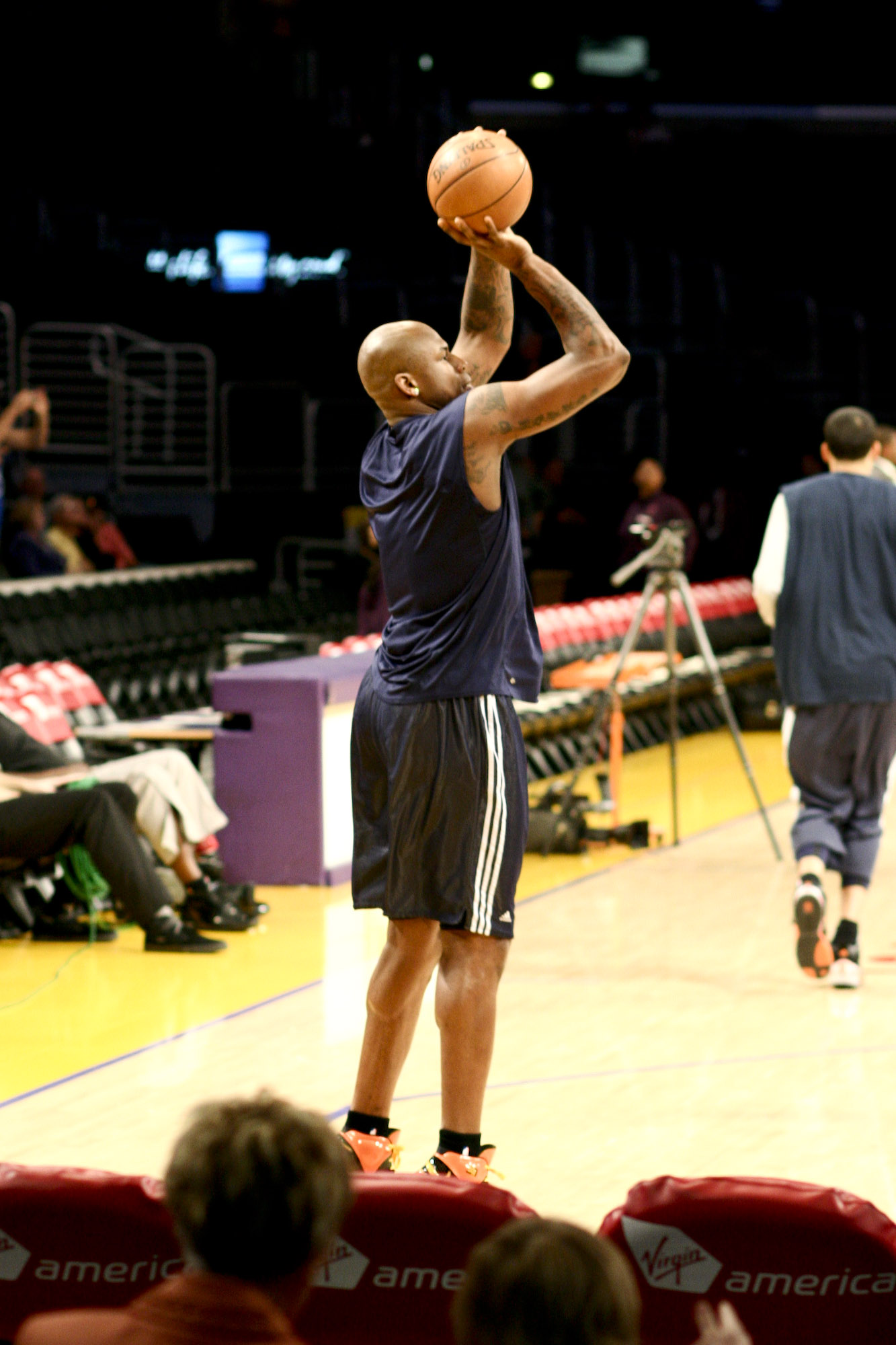 Al Harrington warming up before a Warriors/Lakers game on March 23, 2008 Photographed by Asim Bharwani